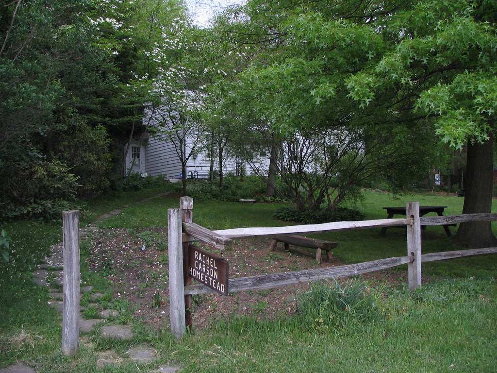 Rachel Carson Homestead Springdale, PA